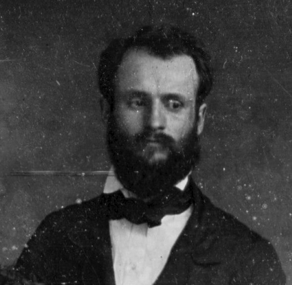 Charles A. Dana, member of the editorial staff of the New York Tribune.